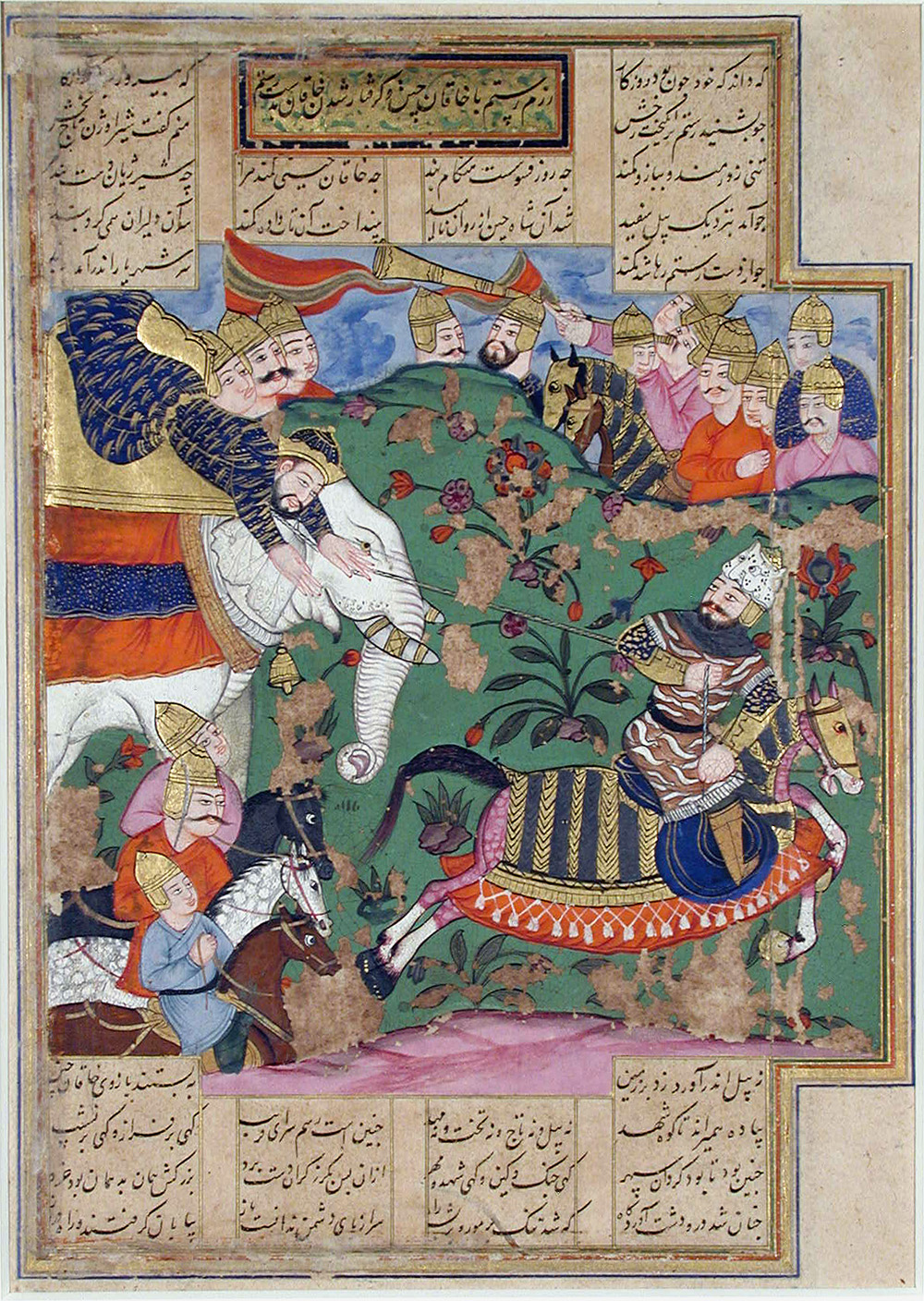 Series Title: FirdowsiÃs Book of Kings Creation Date: ca. 1575 Display Dimensions: 5 13/16 in. x 5 19/32 in. (14.8 cm x 14.2 cm) Credit Line: Edwin Binney 3rd Collection Accession Number: 1990.264 Collection: The San Diego Museum of Art